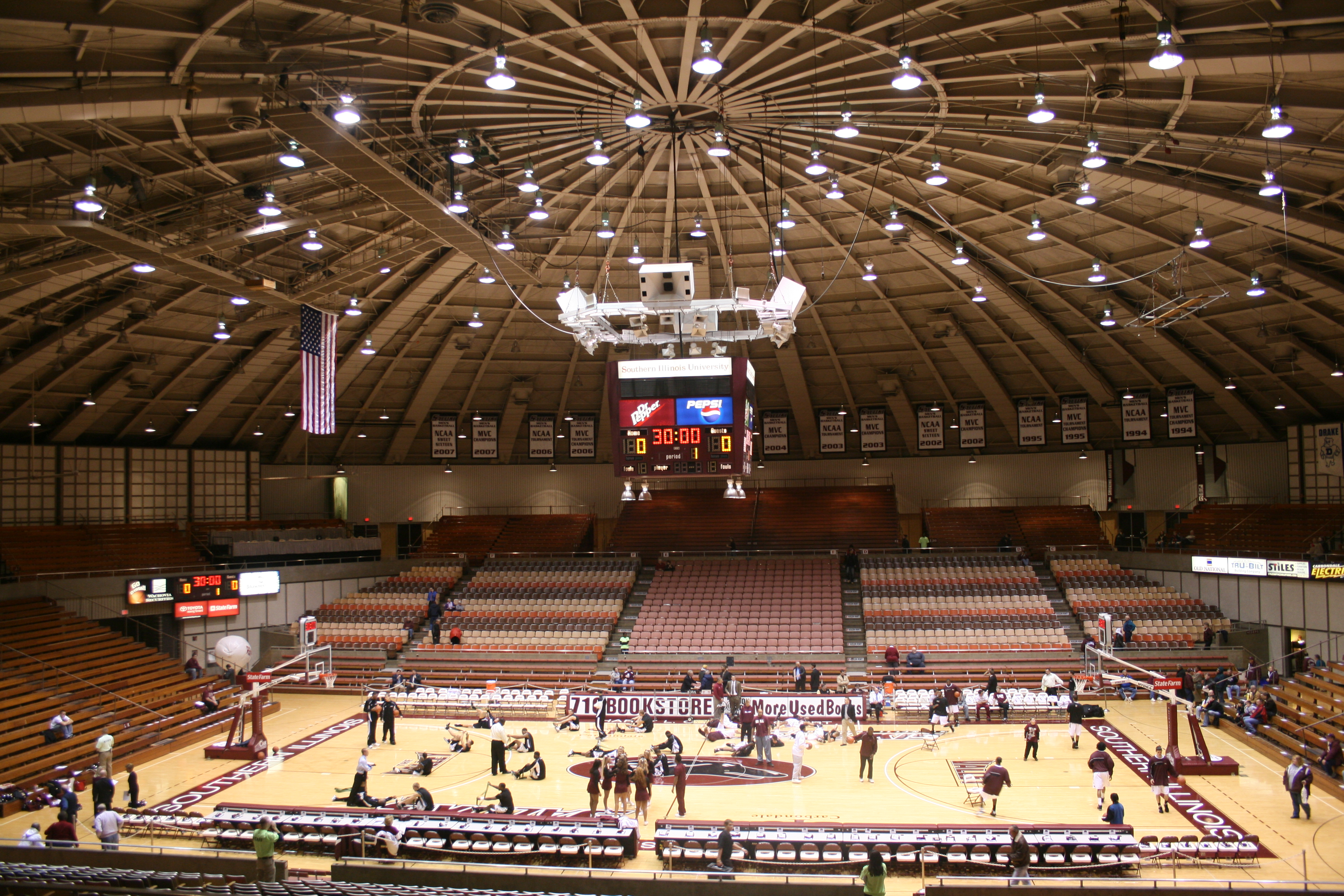 SIU Arena in Carbondale, Illinois